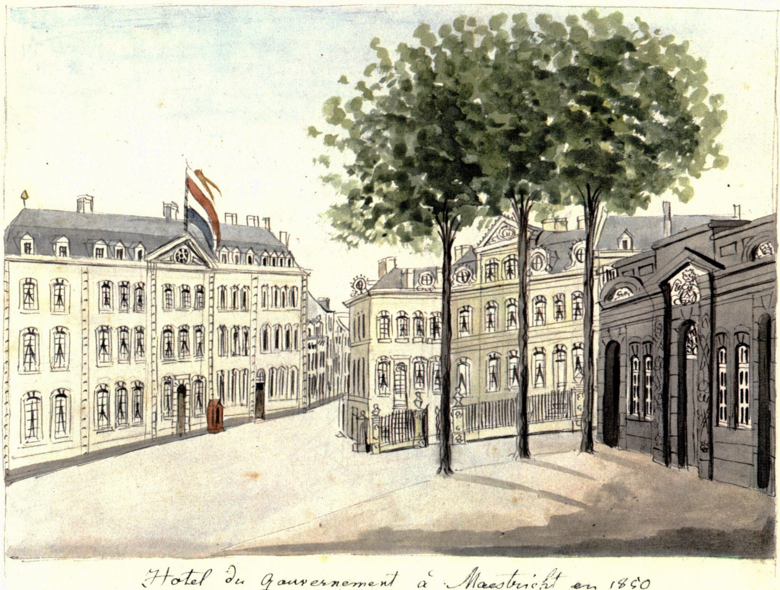 Philippus van Gulpen, "Hotel du Gouvernement à Maestricht en 1850". View of Bouillonstraat with former provincial governement building, Maastricht, Netherlands.